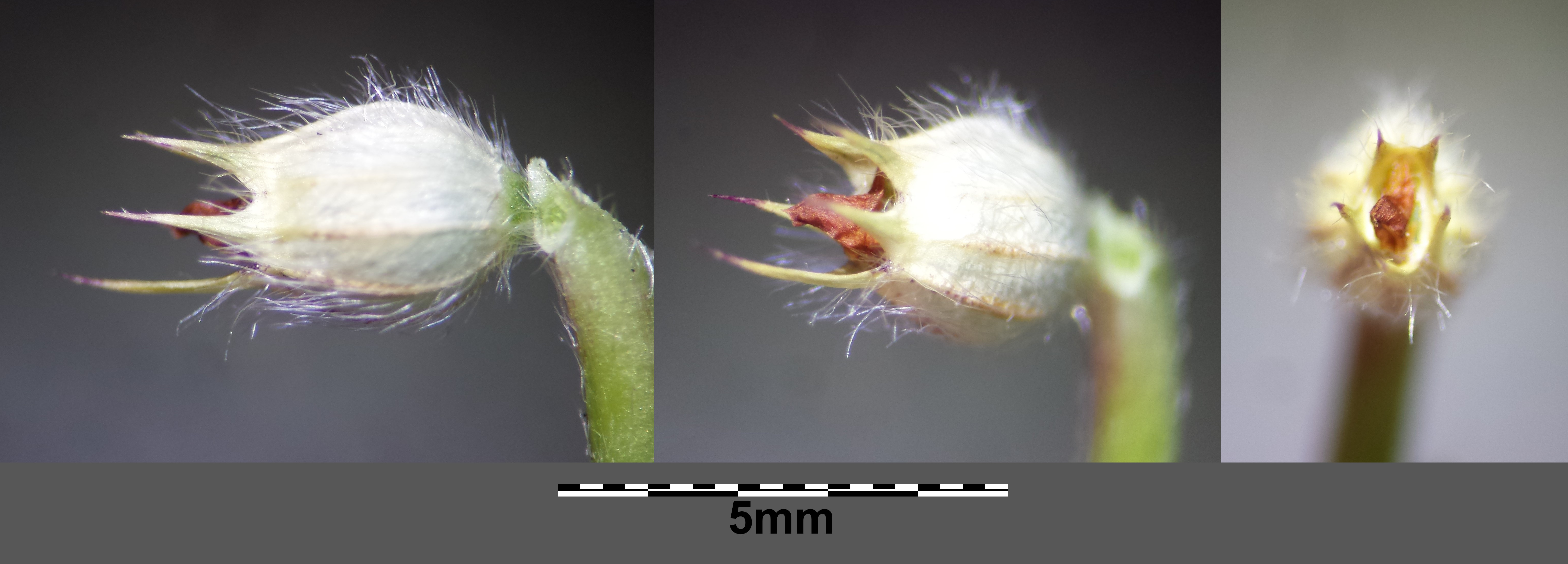 Fruit Taxonym: Trifolium striatum ss Fischer et al. EfÖLS 2008 ISBN 978-3-85474-187-9 Location: Korneuburg rail station, district Korneuburg, Lower Austria - ca. 170 m a.s.l. Habitat: ruderal meadows